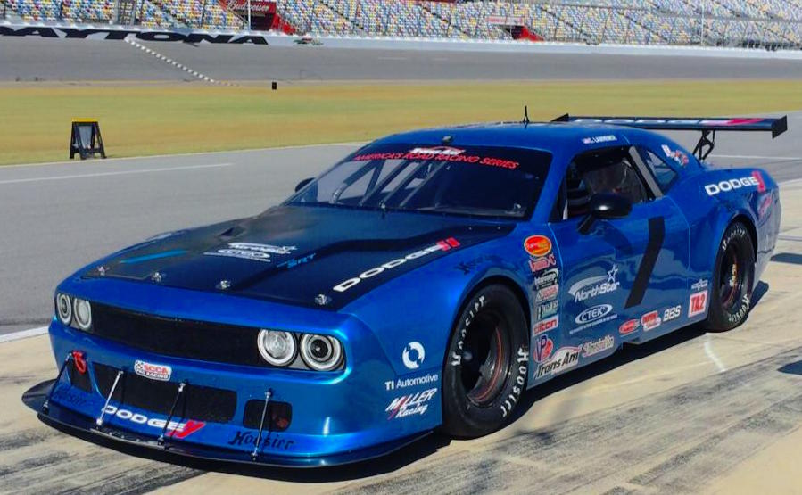 Cameron Lawrence - TA2 Challenger - Daytona November 2014 Race Winner / 2014 TA2 Champion